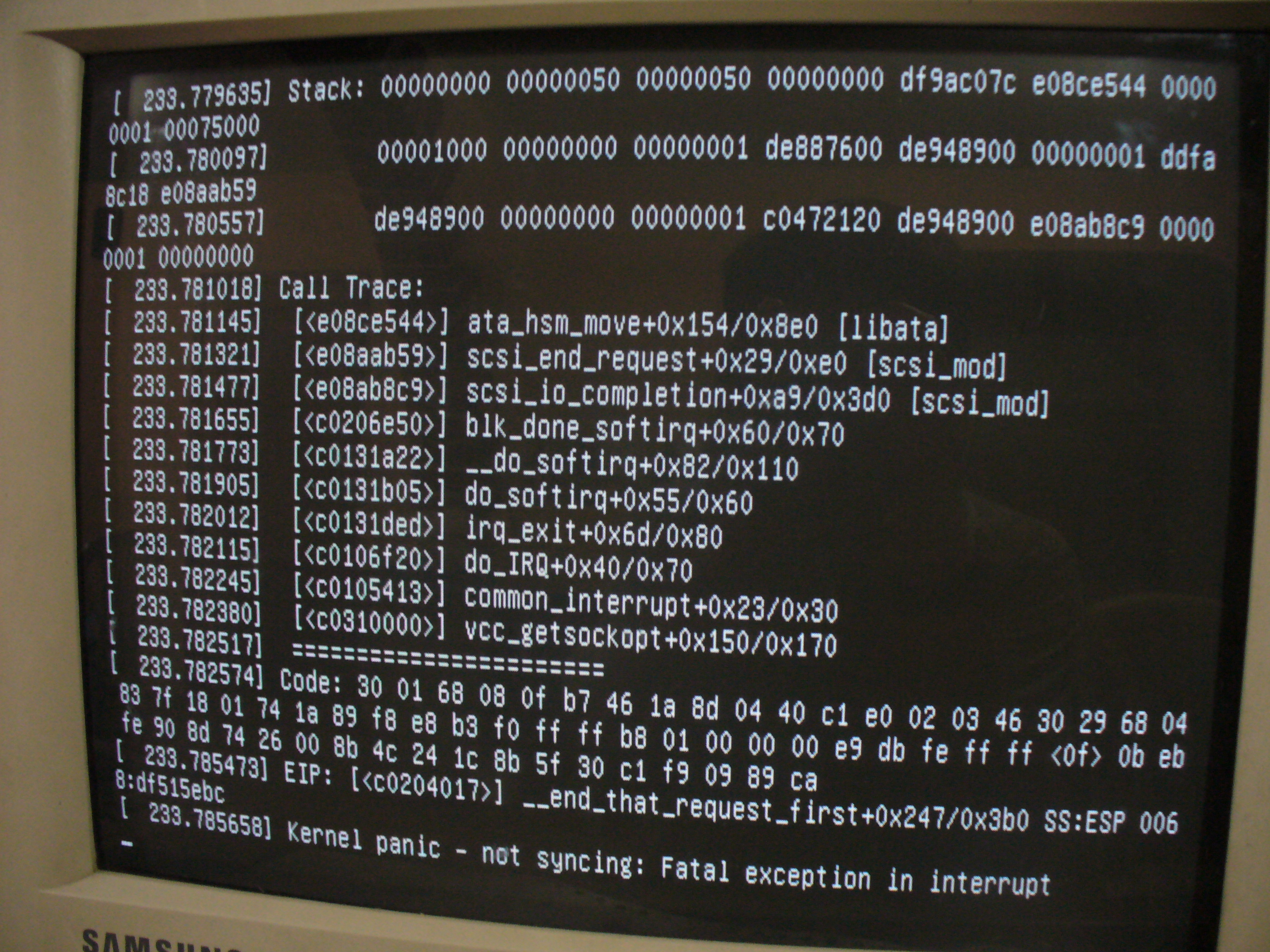 Kernel Panic on a desktop computer running Ubuntu Linux 8.04. The panic kernel was caused by a hard disk and memory hardware failure.